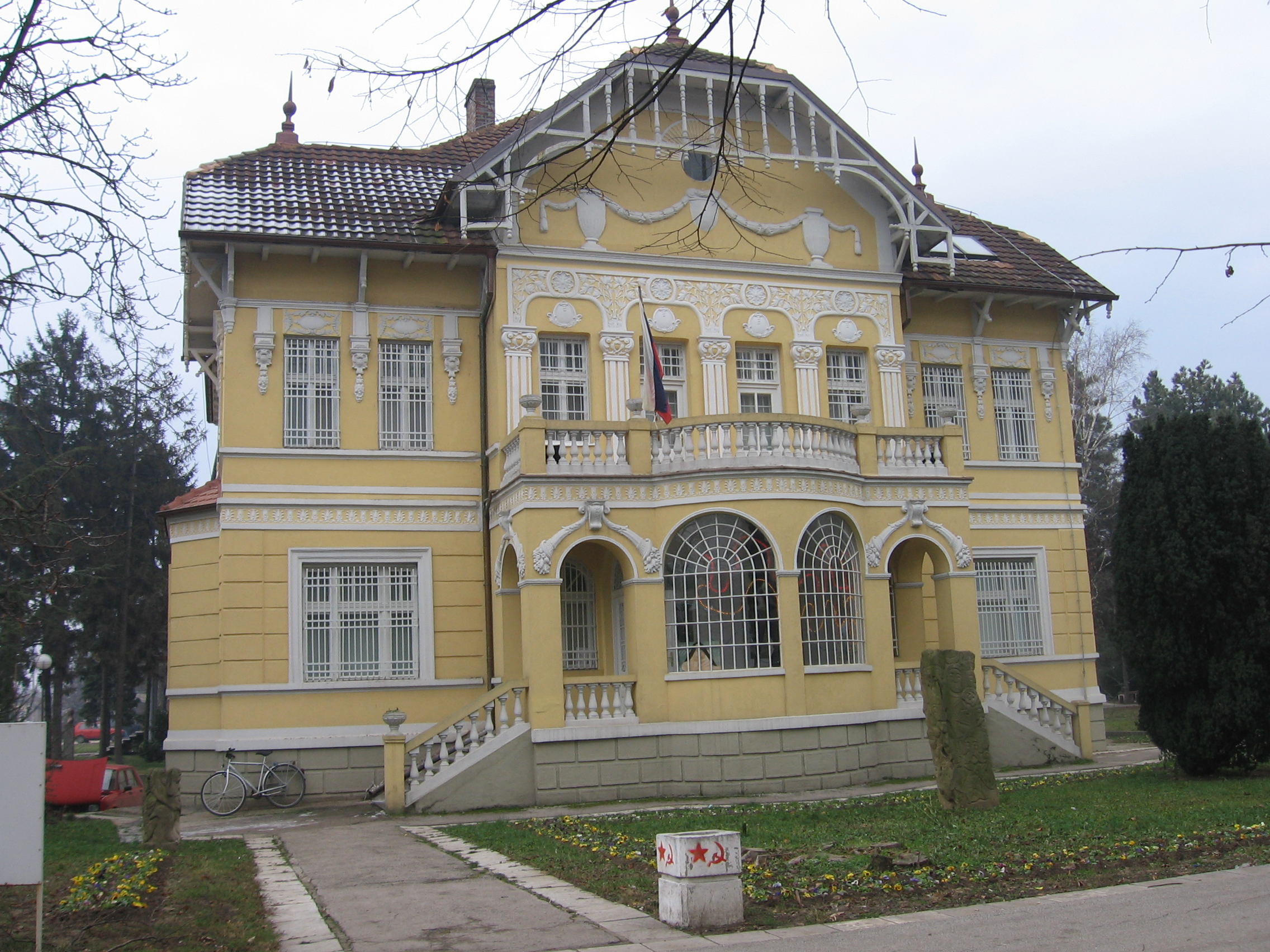 Museum of Naive and Marginal Art